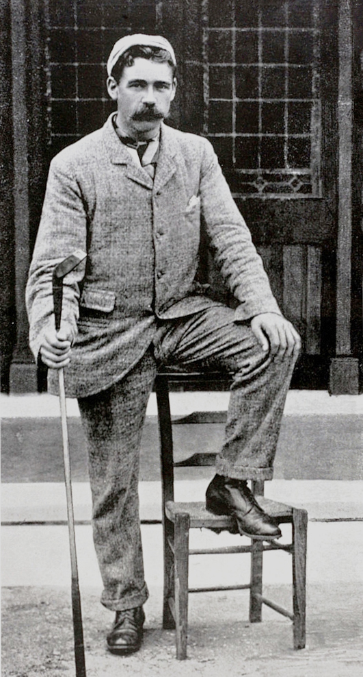 Sport, Golf, circa 1895, Douglas Rolland, born in Eastferry, Fife, who was runner up to J,H,Taylor in the 1894 British Open Golf Championship at Sandwich